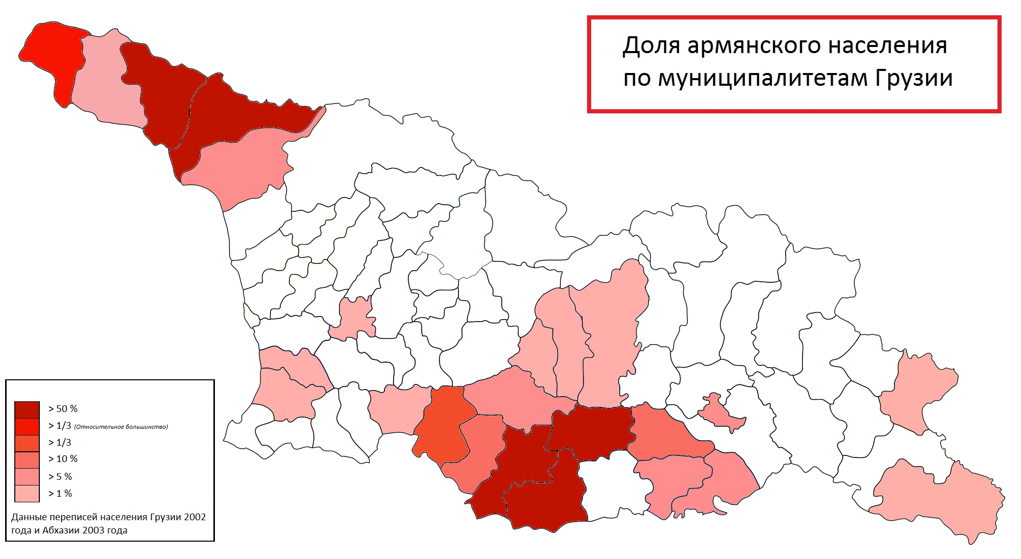 The share of the Armenian population in municipalities of Georgia (according to the census of Georgia in 2002 and a census population of Abkhazia, 2003) // in Russian